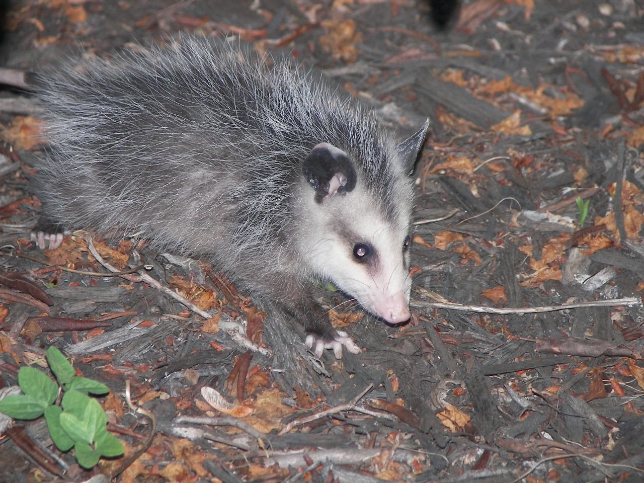 A young Virginia opossum (Didelphis virginiana) found wandering alone in the yard. I couldn't help but feel badly for him. See my photo set (Potsy the Possum) for a few more photos.